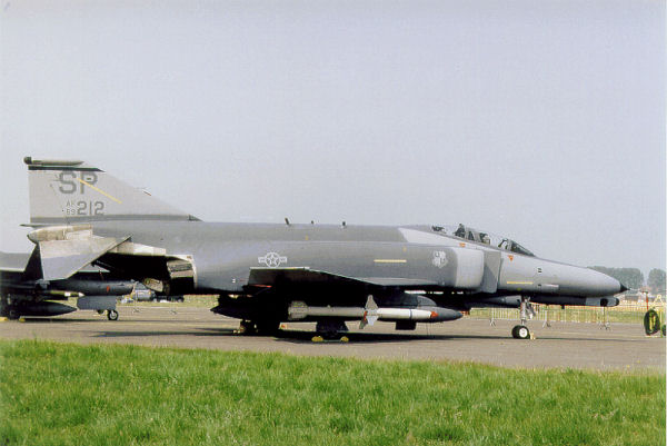 F-4G "Wild Weasel" Serial 69-0212 of the 81st Tactical Fighter Squadron, Spangdahlem Air Base, Germany.